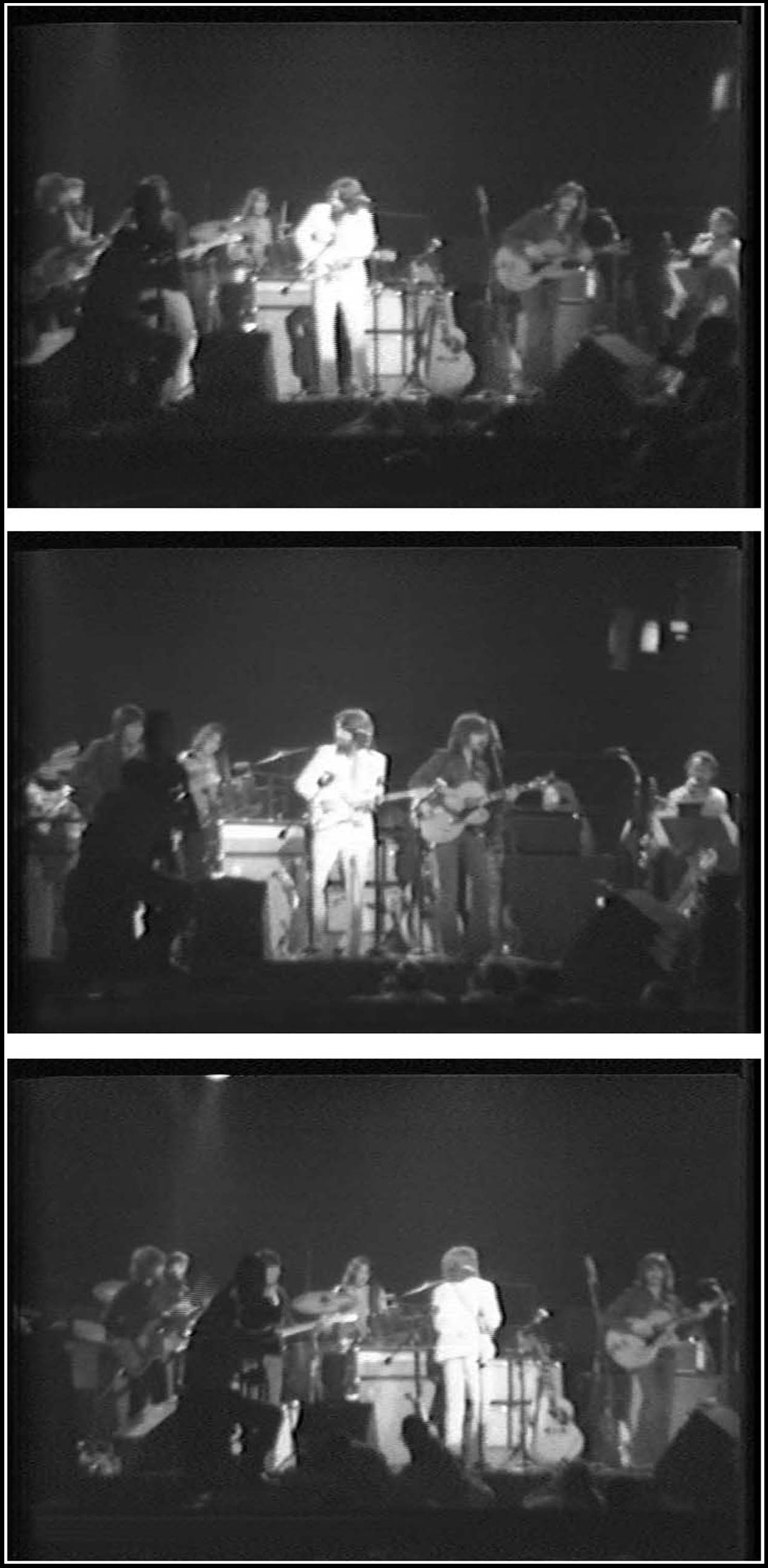 Three incidental non-successive video still frame pictures presented for informational and identification purposes only and for means of subject review and educational considerations, as extracted from the historical 1971 half-hour long half-inch reel to reel motion picture sound videotape of the afternoon benefit charity show for humanitarian relief known as the Concert for Bangla Desh as produced at Madison Square Garden, New York City on August 1, 1971 - by author, historian, archivist and filmmaker / video producer Richard Warren Lipack.